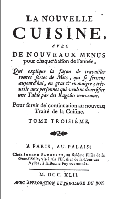 Cover page of Menon's La nouvelle cuisine (1742), the 3rd volume of his Traité de la cuisine. Source: Google Books.